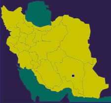 by Abdolreza